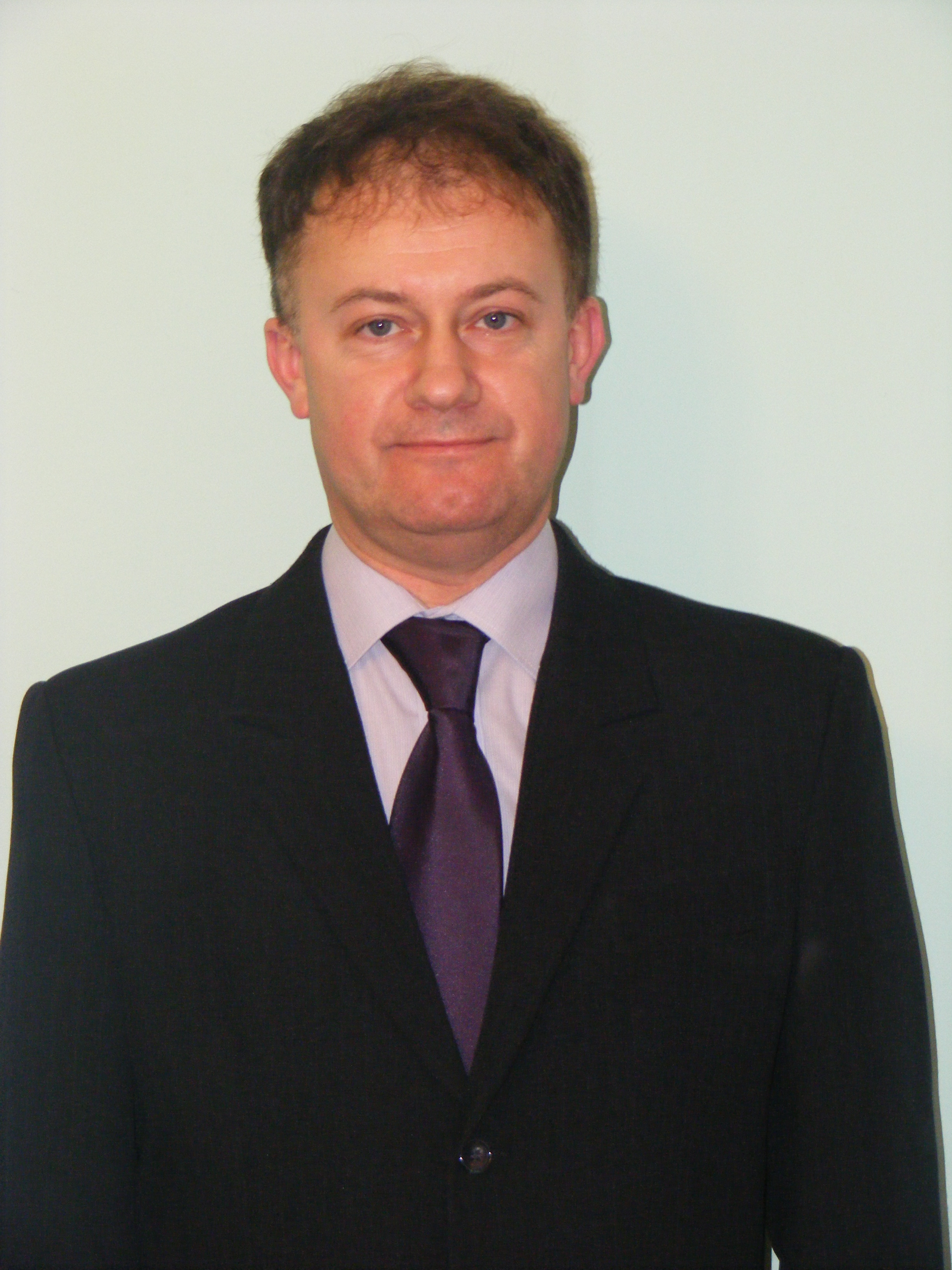 Professor Cezary Taracha, a Polish historian and Hispanist.